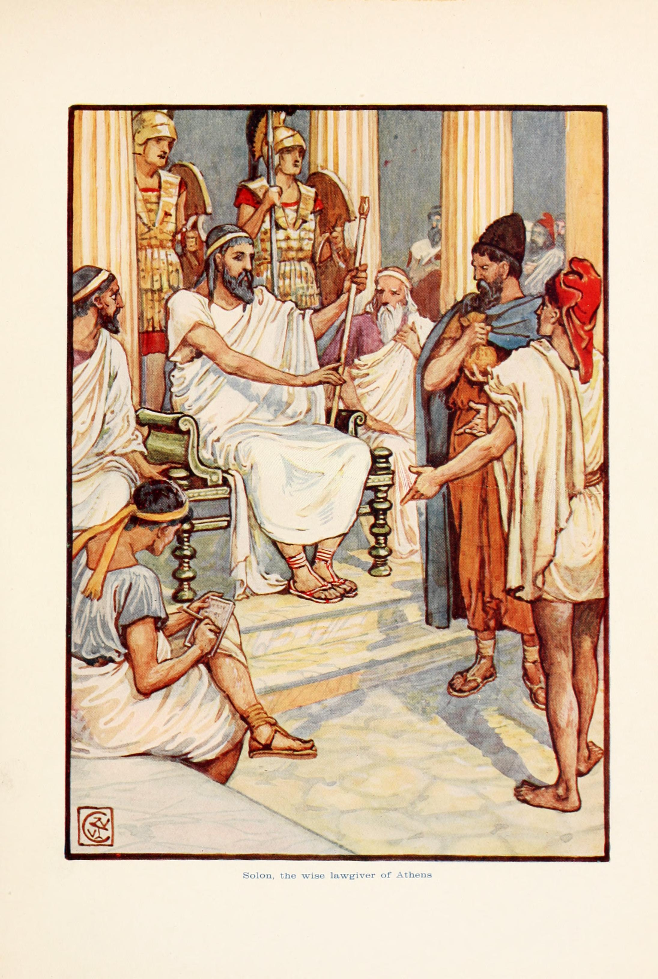 These stories from the history of ancient Greece begin with myths and legends of gods and heroes and end with the conquests of Alexander the Great. The book is accessible and well organized, but it is considerably more detailed than some other introductory texts. It covers Greek history from the age of Mythology to the rise of Alexander, but because of its length we do not recommend it for 5th grade or younger. It is an excellent reference, thoroughly engaging, and a good candidate for a somewhat older student's first foray into Greek history.